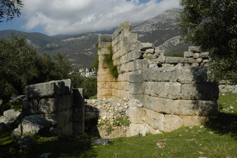 J. M. Harrington, personal digital image